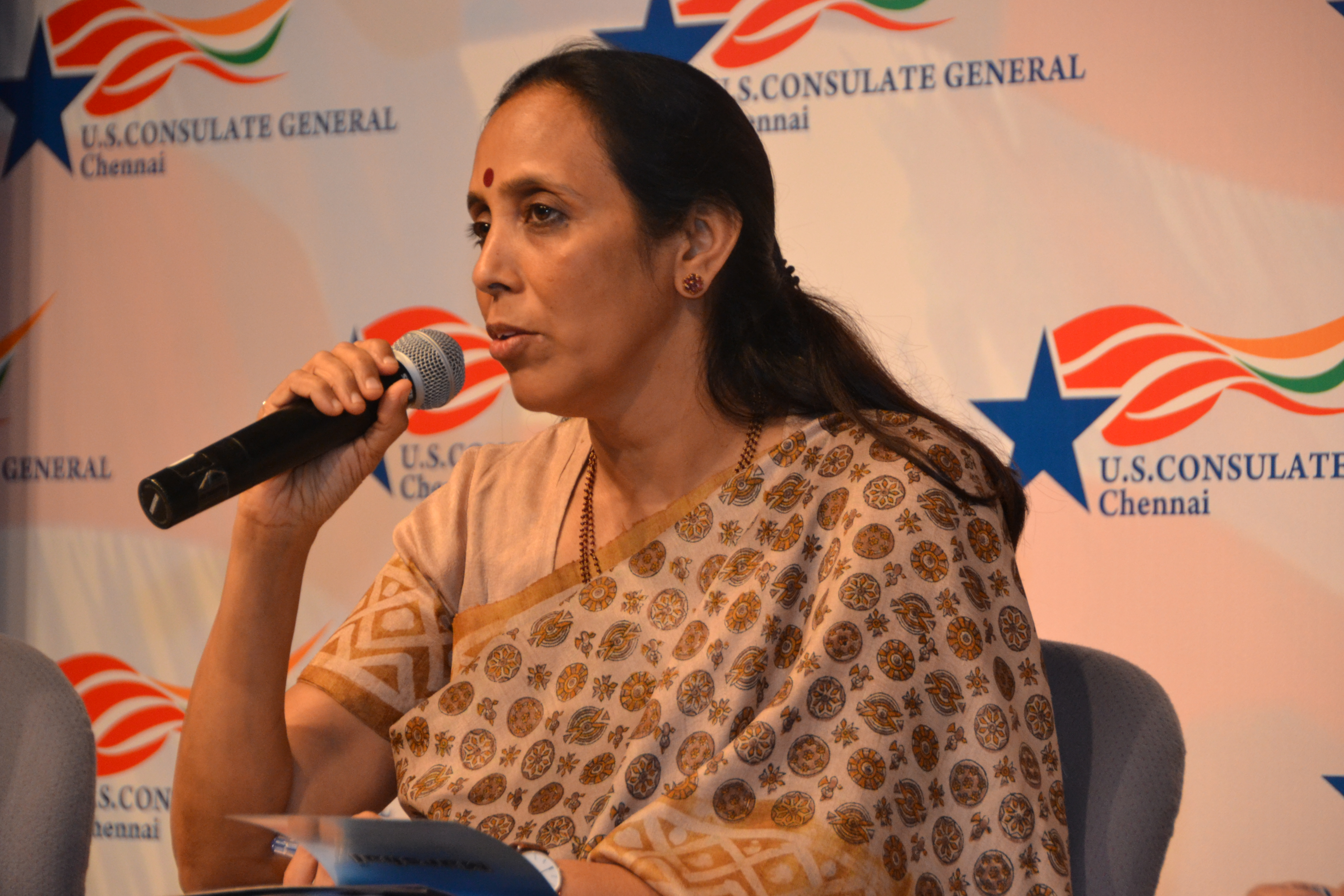 The U.S. Consulate General in Chennai celebrated Women's History Month with several activities, including five roundtables on various topics